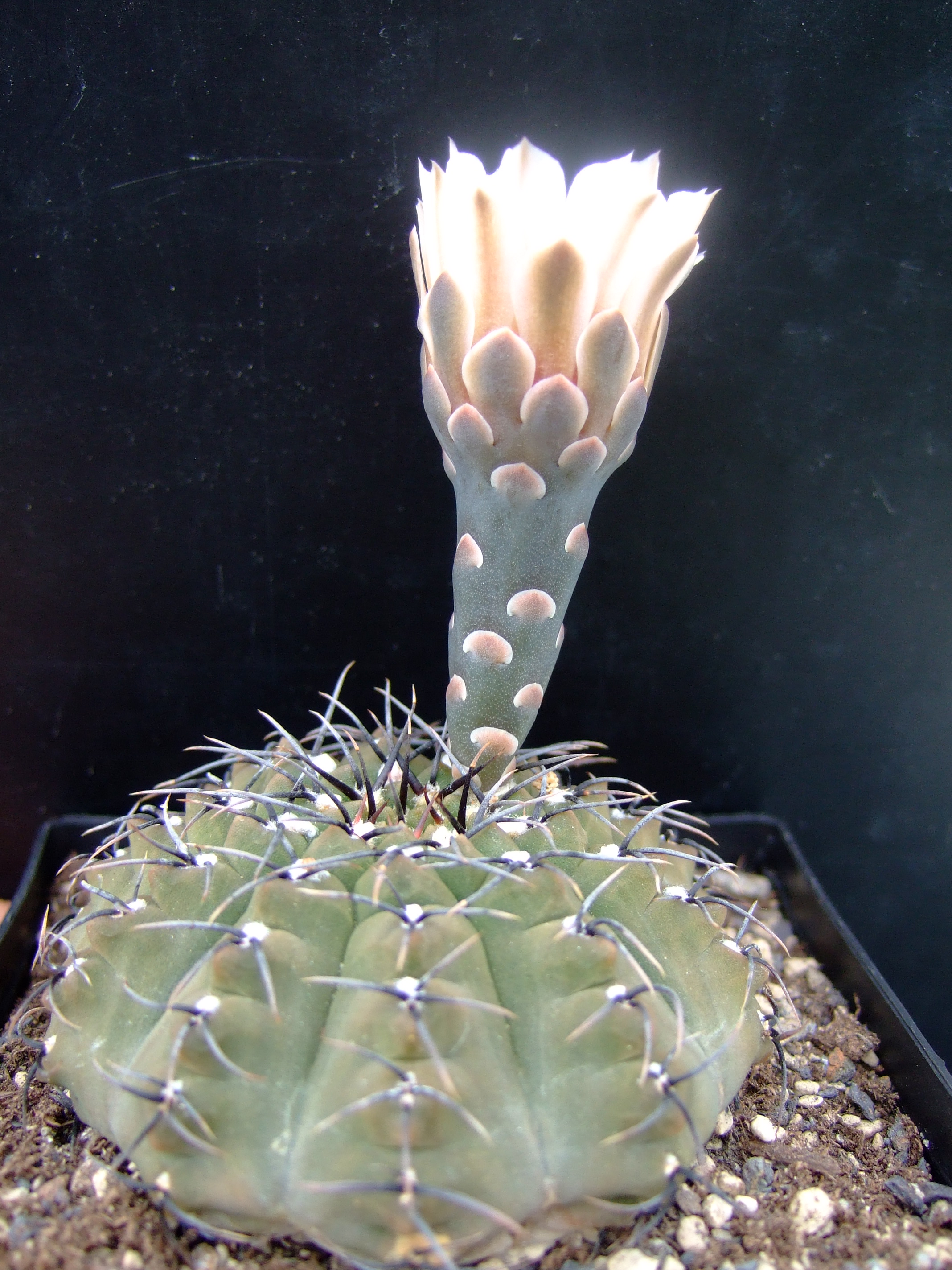 Gymnocalycium occultum